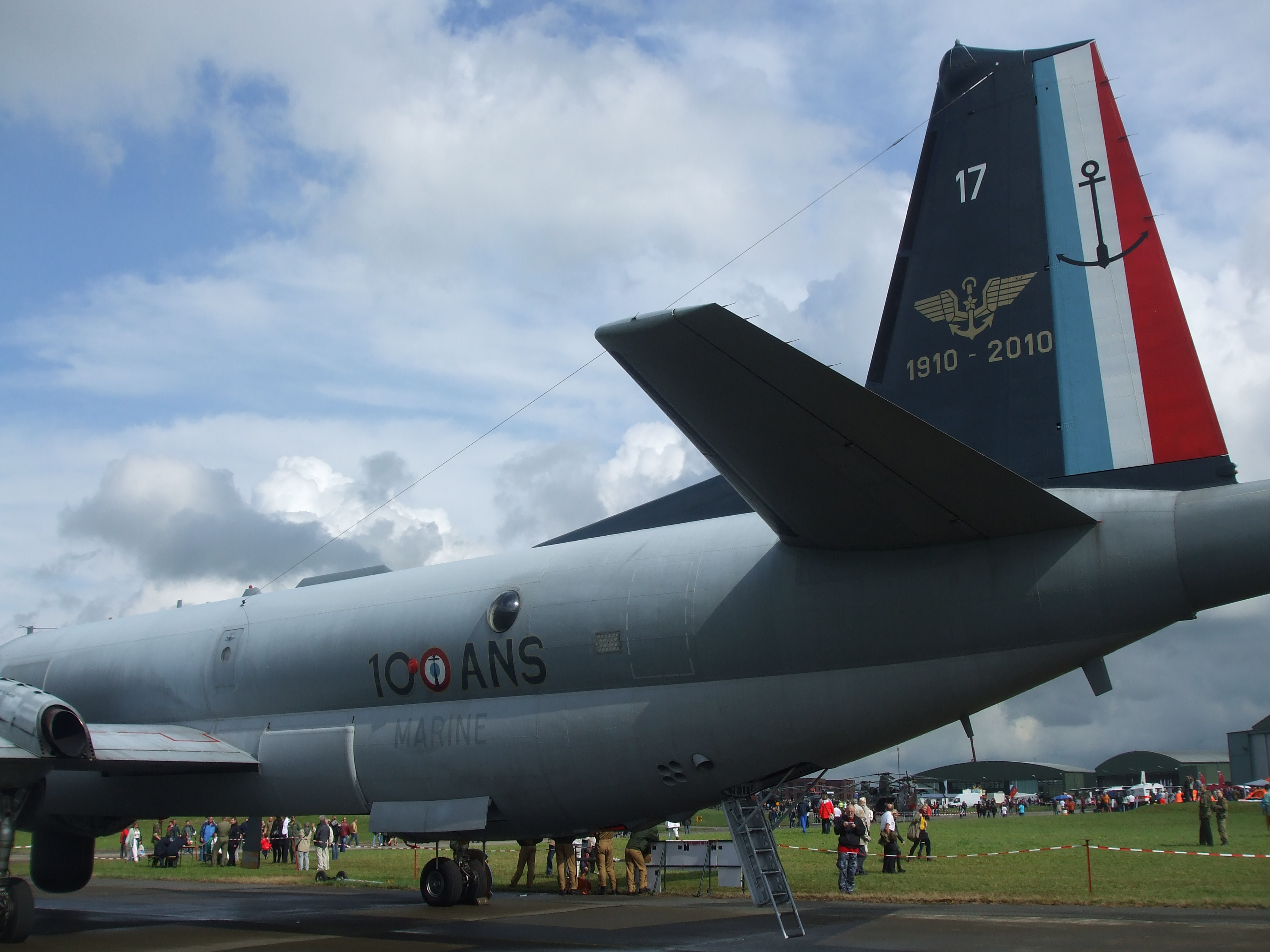 French Atlantique 2 sports a 100 years anniversary special paint scheme of the French Naval Aviation. The picture was taken at the 100 years anniverary air show of its German counter parts.